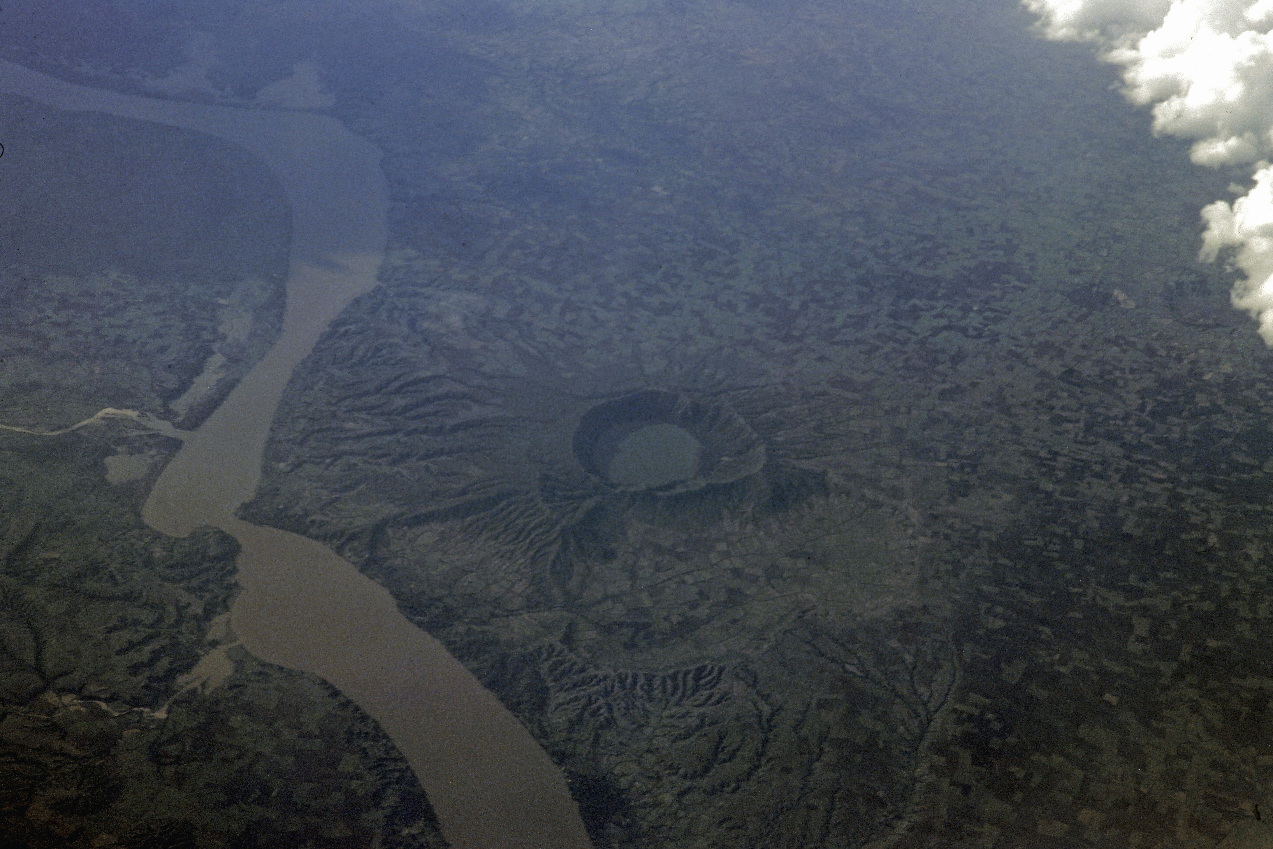 Aerial view from an airplane at approx. 10 km height on lower Chindwin river (Burma/Myanmar). In the center is Twin Taung lake (also called Win Po Twin), an extinct volcano.